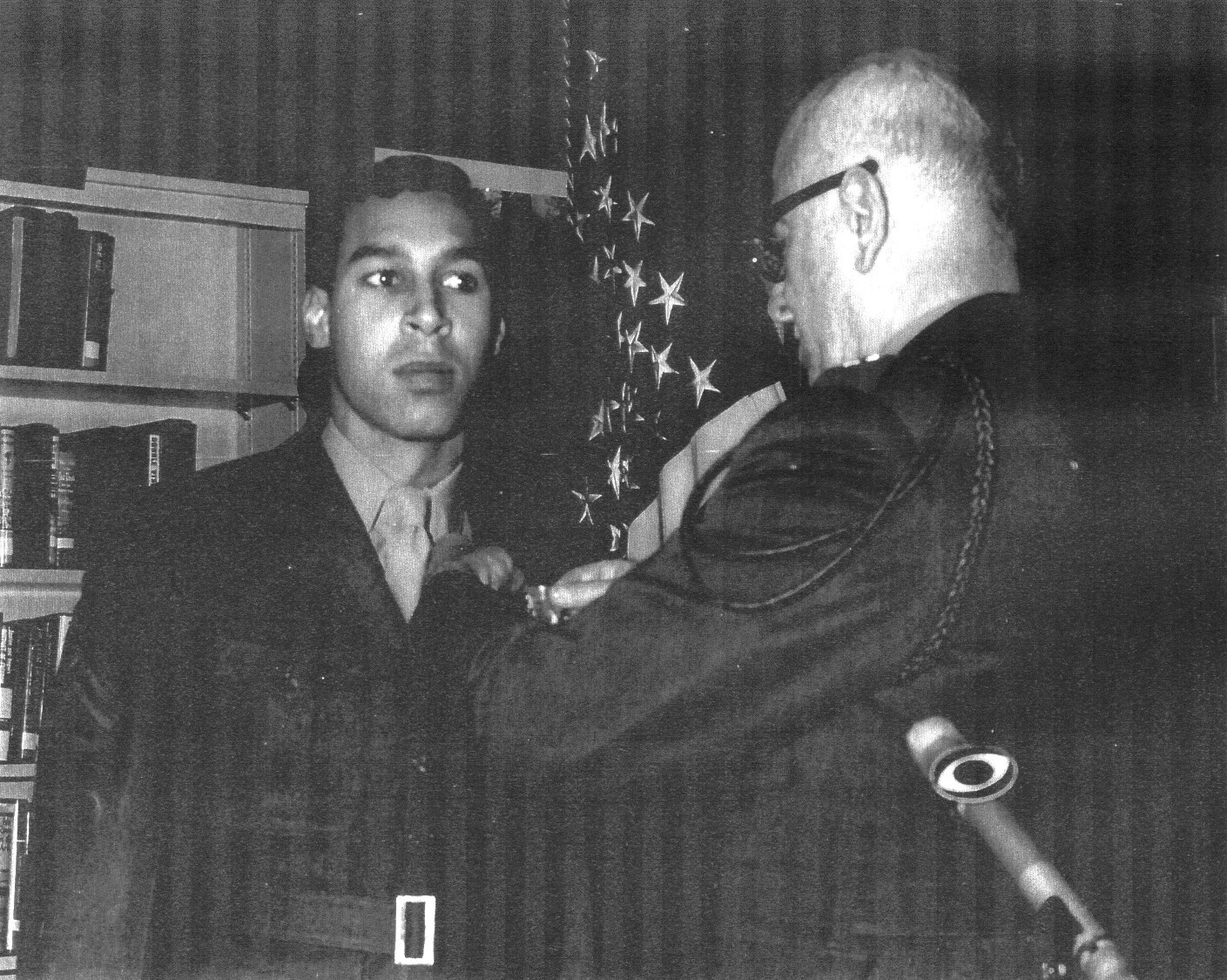 Navy Cross presentation Brooklyn Navy Yard